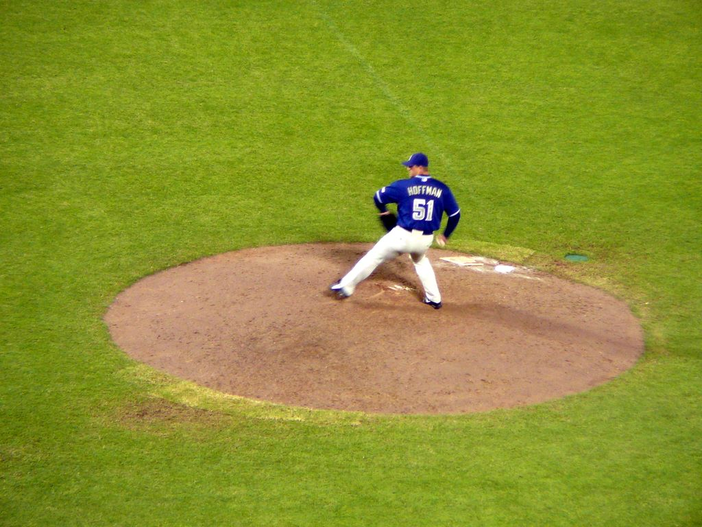 Trevor Hoffman pitches for the San Diego Padres in a MLB game against the Washington Nationals